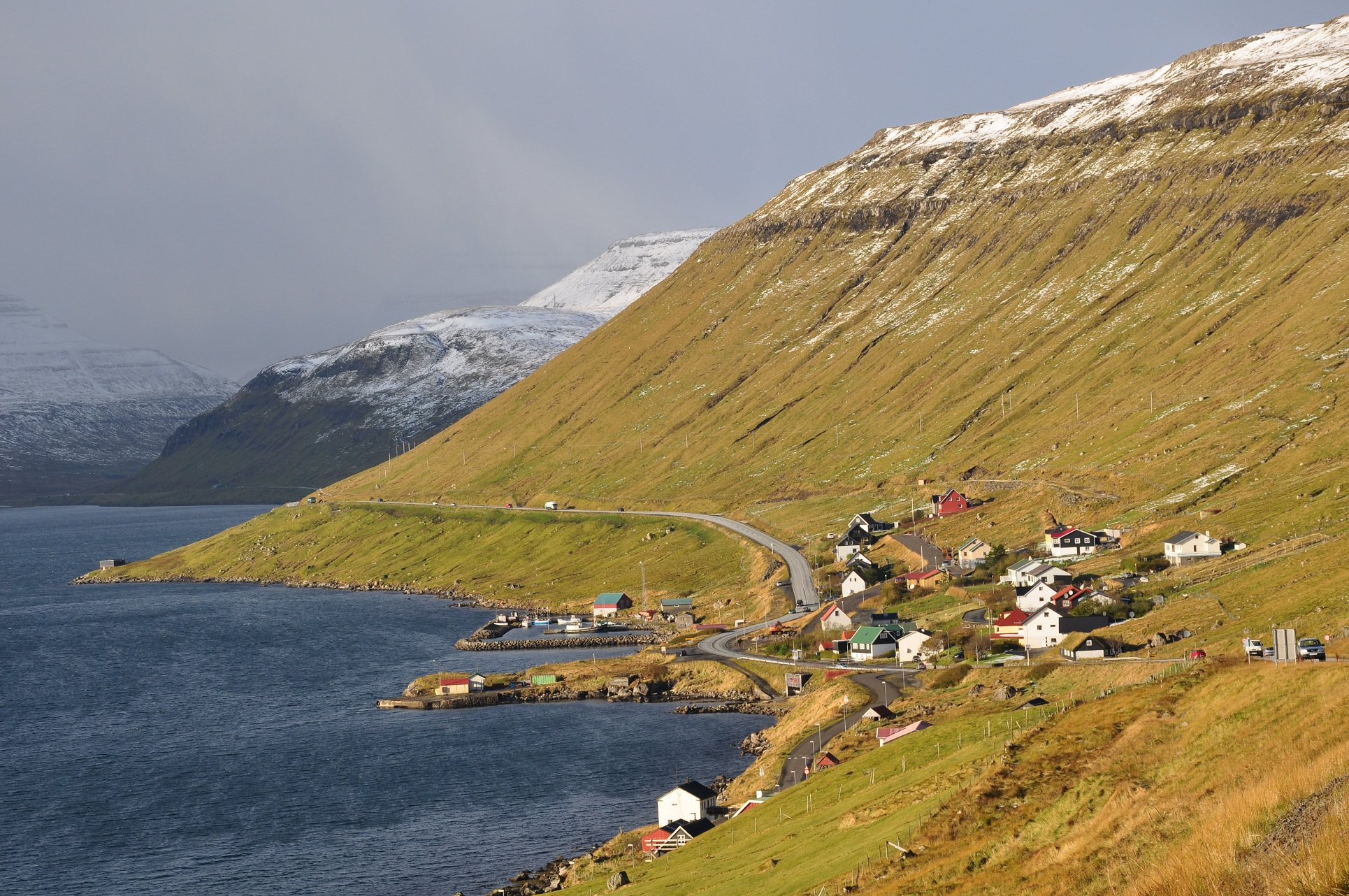 The villages of Skipanes and Undir Gøtueiði along Skálafjørður melt together in this picture, taken from the Steðgipláss roundabout, looking to the NW.